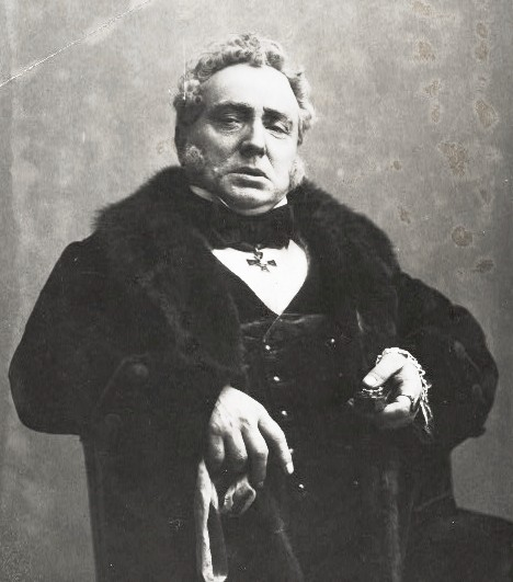 Alexander Yuzhin as Famusov in «Sorrows of the Spirit» by Alexander Sergeyevich Griboyedov.